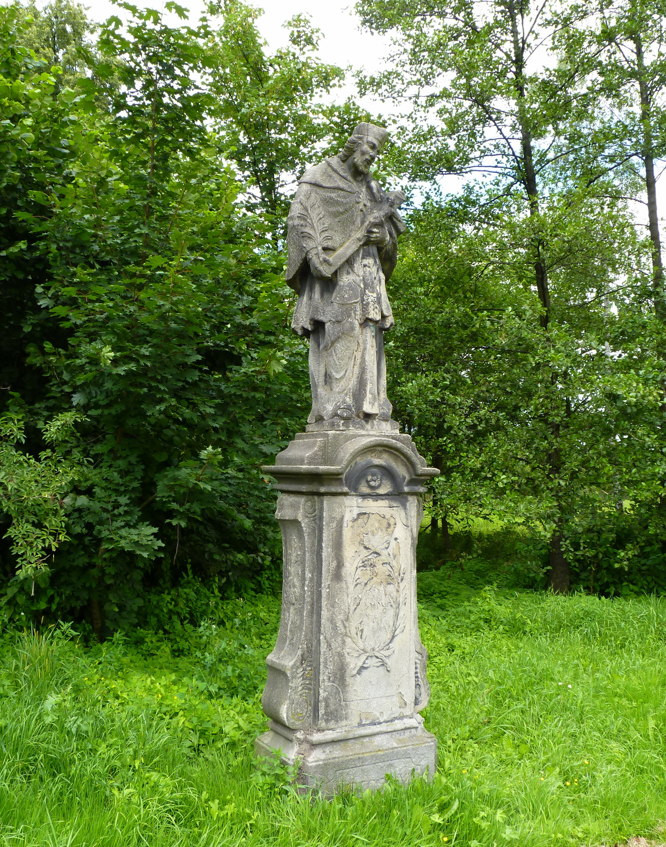 Statue of John of Nepomuk. Doubrava, Karviná District, Moravian-Silesian Region